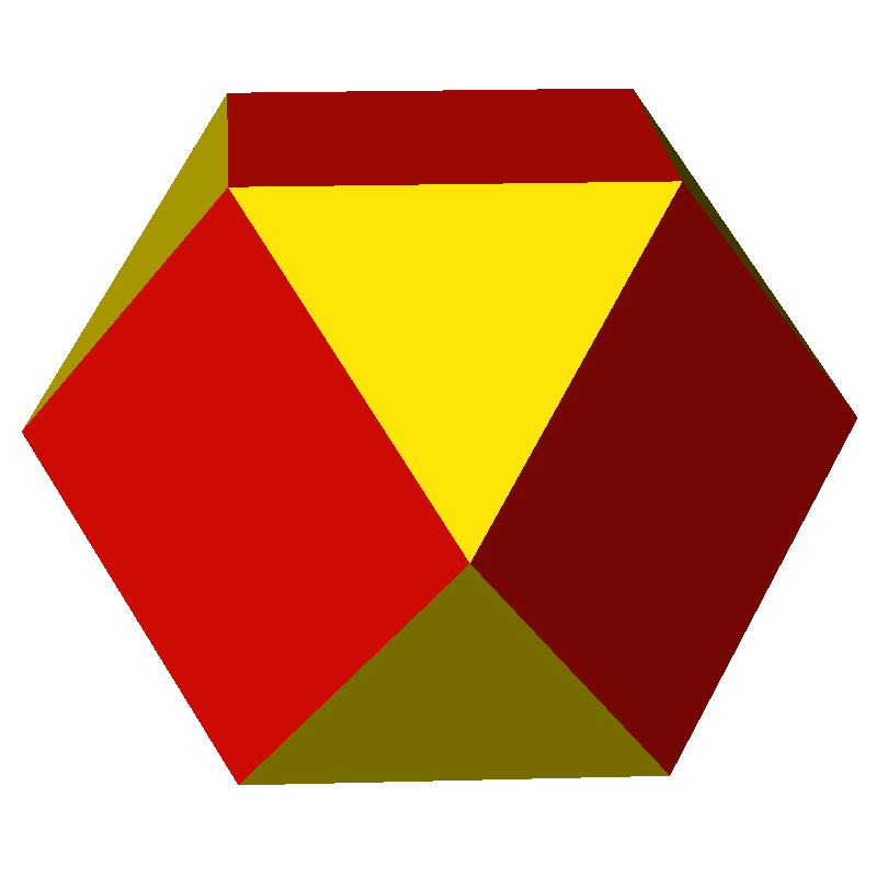 Cuboctahedron